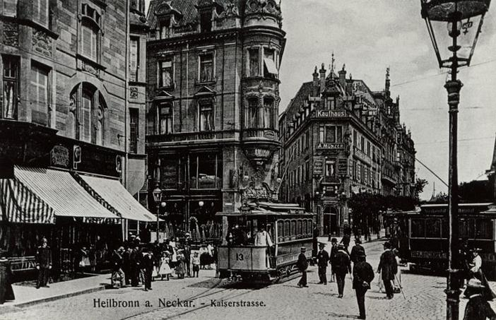 Heilbronn